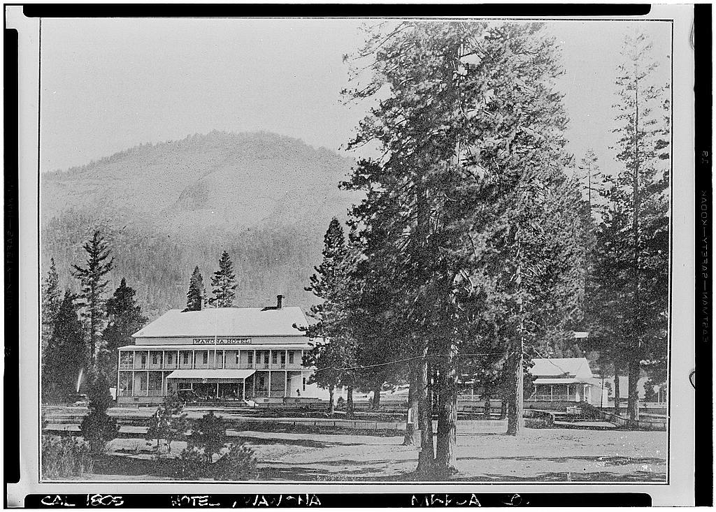 1. Historic American Buildings Survey From S.F. Examiner Library Taken in 1903 HABS CAL,22-WAWO,1-1 - Significance: The Wawona Hotel complex was established on the homestead of Galen Clark, one of the Yosemite region's earliest settlers and pioneers. Clark was appointed the first protector of the Yosemite State Park in 1864. He and his successors built many of the first roads in the region and operated a stagecoach line in conjunction with the hotel. The Wawona has served as a major California resort hotel for over a century and has housed thousands of guests visiting the Yosemite Valley. The hotel complex was also the summer home of the nationally known American landscape artist, Thomas Hill, between 1886 and 1908.